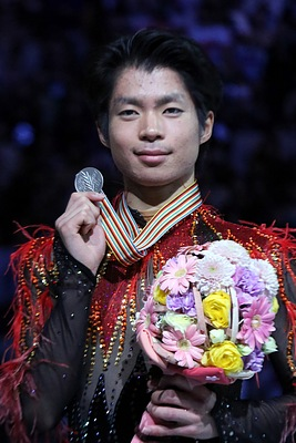 Tatsuki Machida during the men's medals ceremony at the 2014 World Championships.